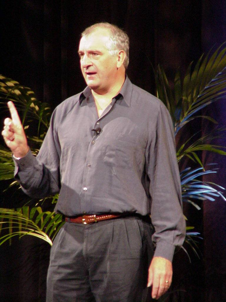 Douglas Adams as a keynote speaker at Internet Security Conference in San Francisco, March 15-17, 2000[1]